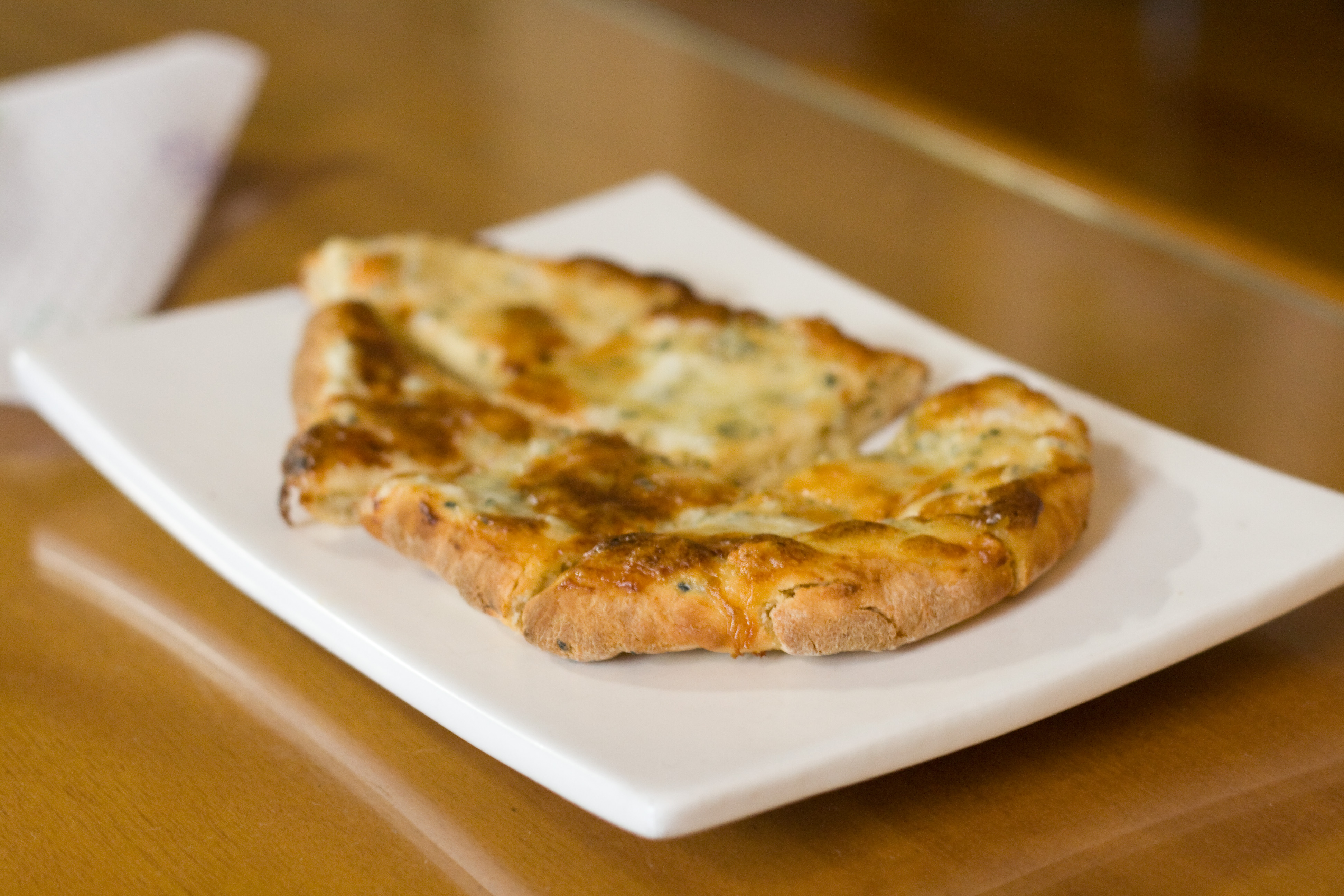 Lise took a plain naan, added goat's cheese, blue cheese, heated for 10 minutes in the oven and made an impromptu cheese bread side for the pasta .